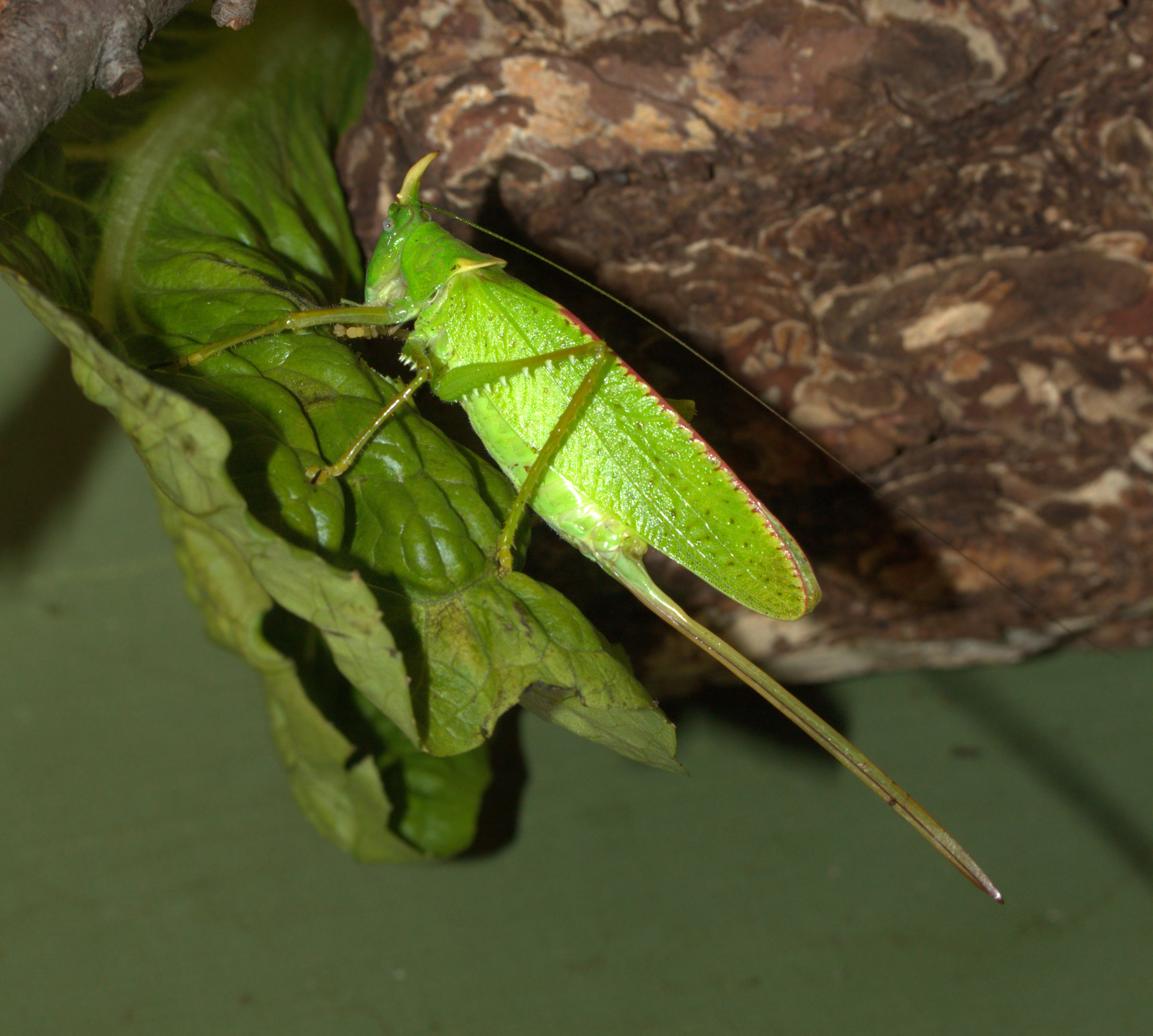 Rhinoceros katydid - Copiphora rhinoceros. Female with detail of ovipositor. Taken at Cincinnati Zoo